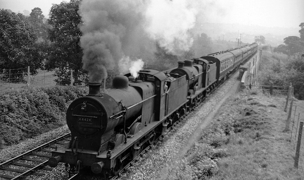 Up return holiday express on the S&D near Shepton Mallet. View SE, towards Shepton Mallet, Templecombe and Bournemouth on the Somerset & Dorset Bath - Bournemouth line. This Summer Saturday train was the 11.12 Bournemouth West to Sheffield and had two LMS 4F 0-6-0s, Nos. 44424 and 44422 at its head. See also ....